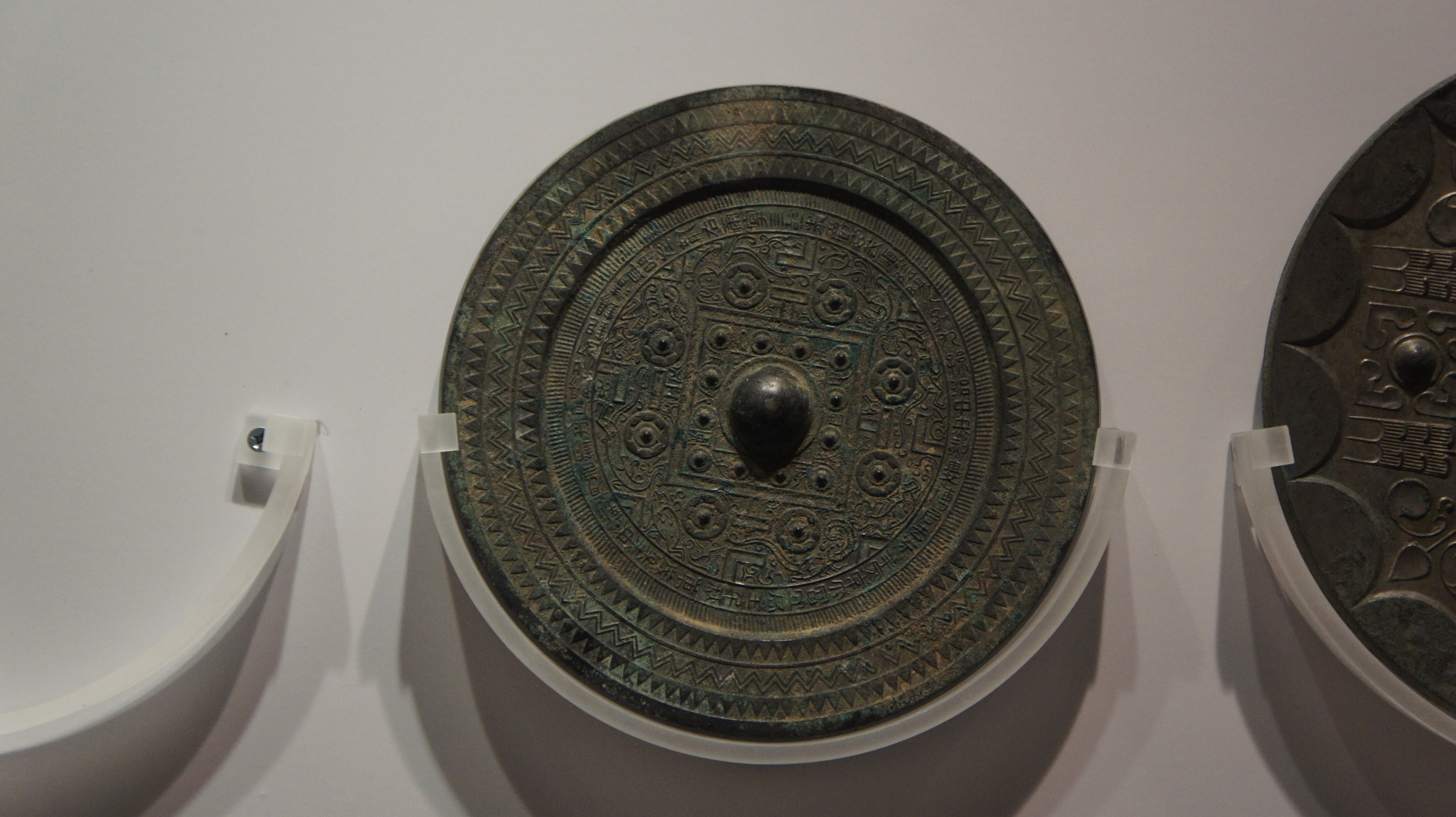 Liubo or TLV mirror with 12 divisions of a day (十二辰) from Xin dynasty (9 - 23 AD).